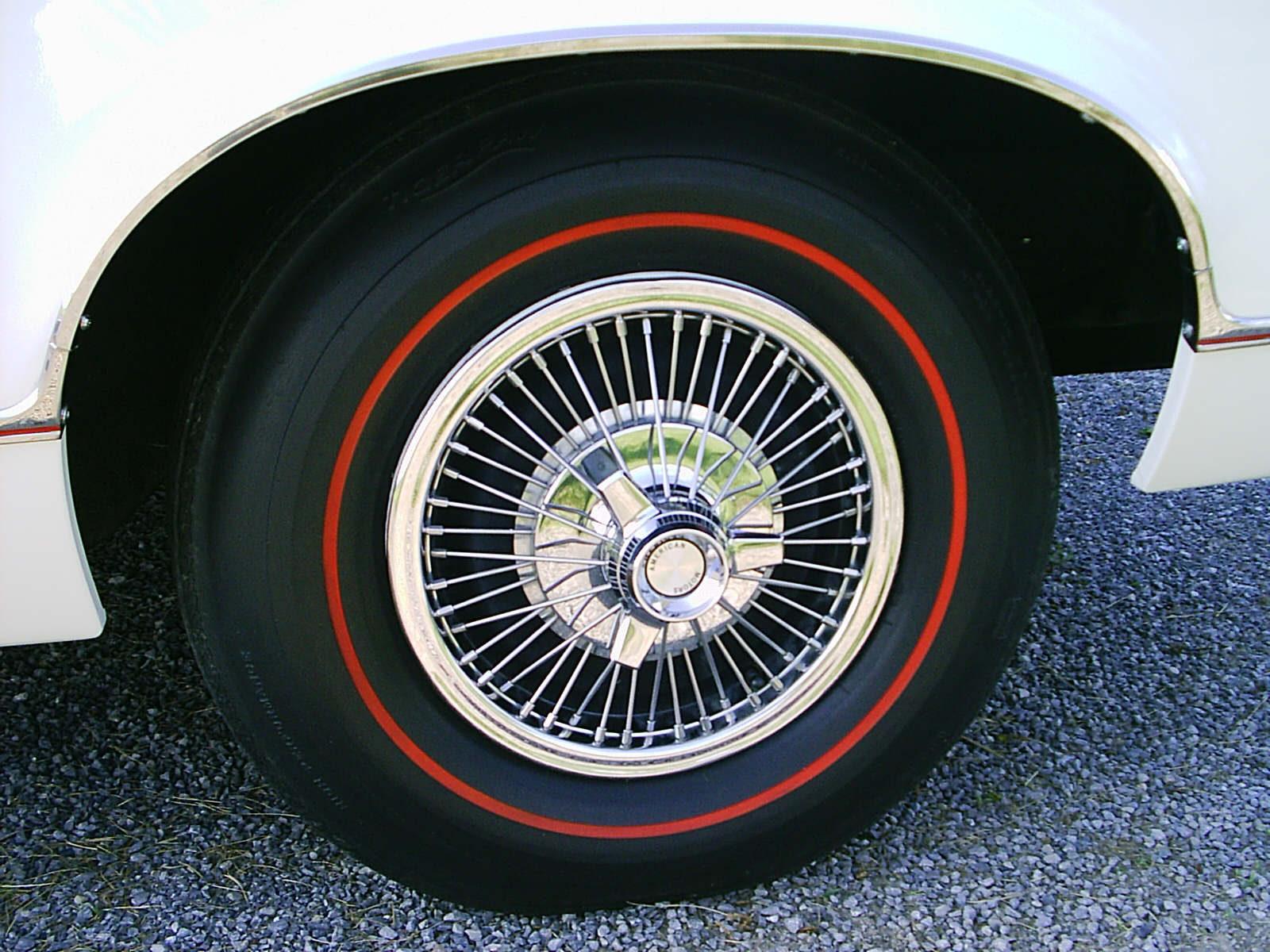 Original factory wire wheel cover on a 1967 AMC Marlin (American Motors Corporation) with vintage US Royal "Tiger Paw" red-stripe high-performance 8.25x14 nylon bias belt tires.